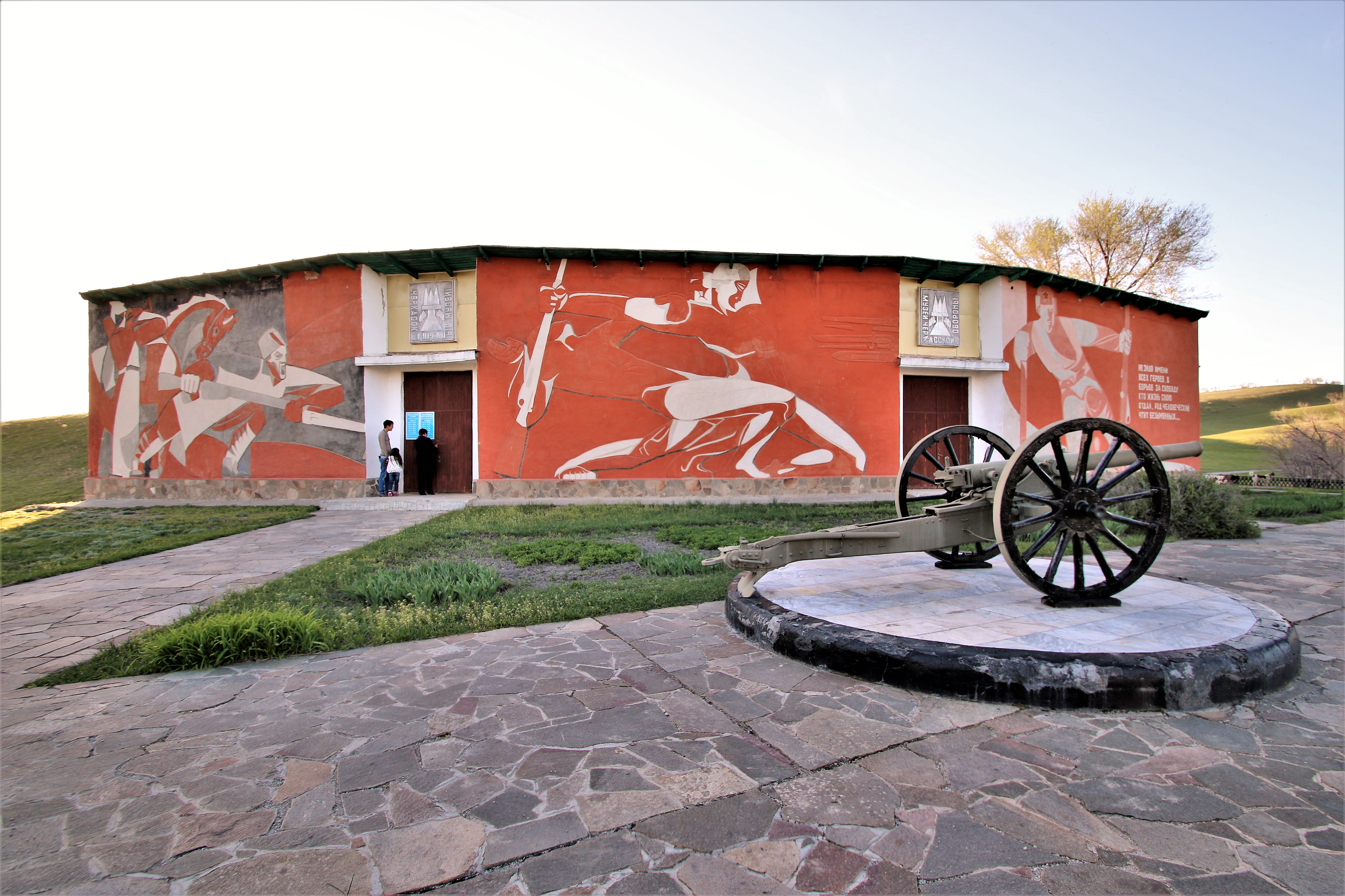 Cherkassk Defence Museum